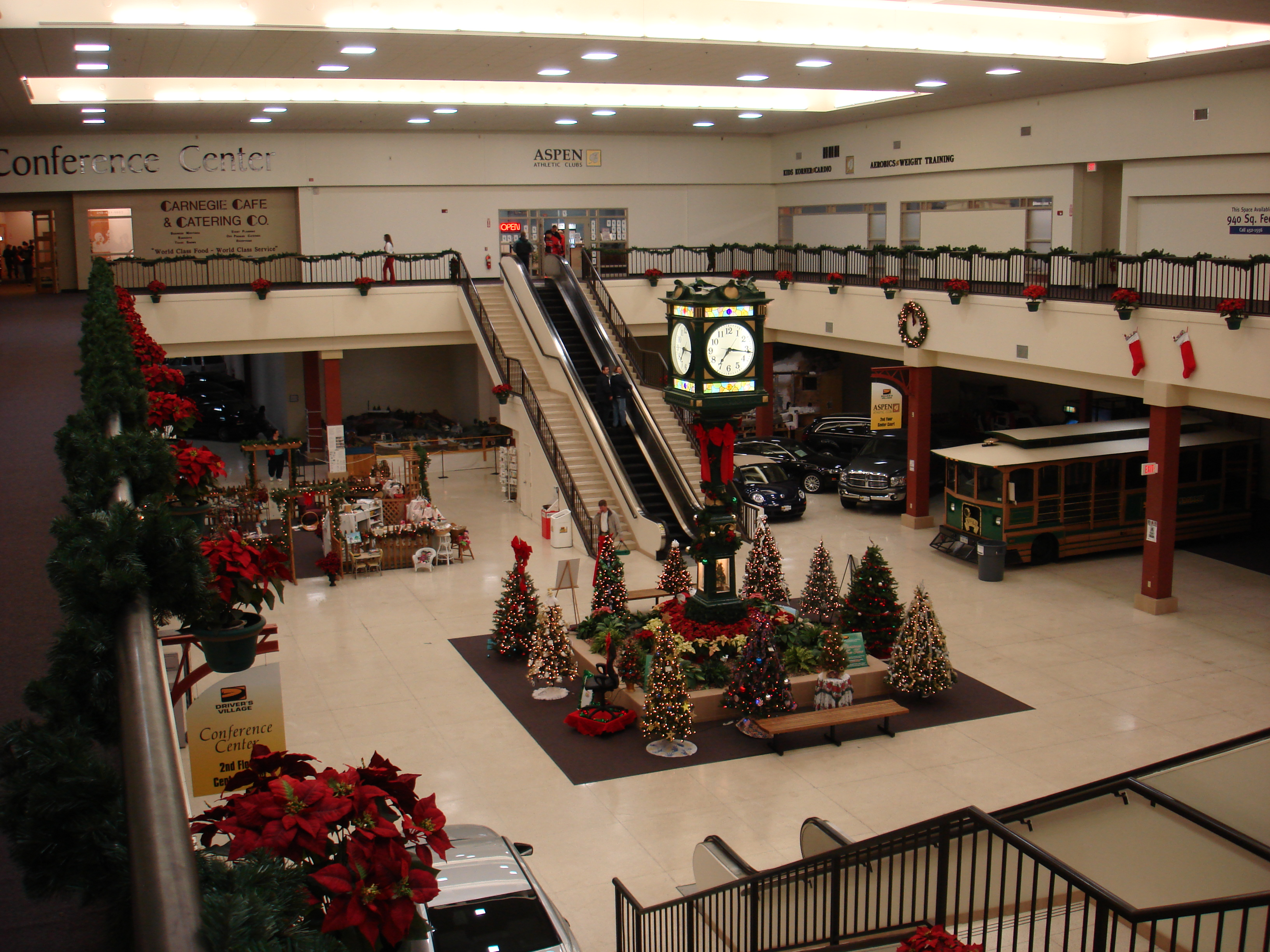 Center court of the Penn-Can Mall near Syracuse, New York today.